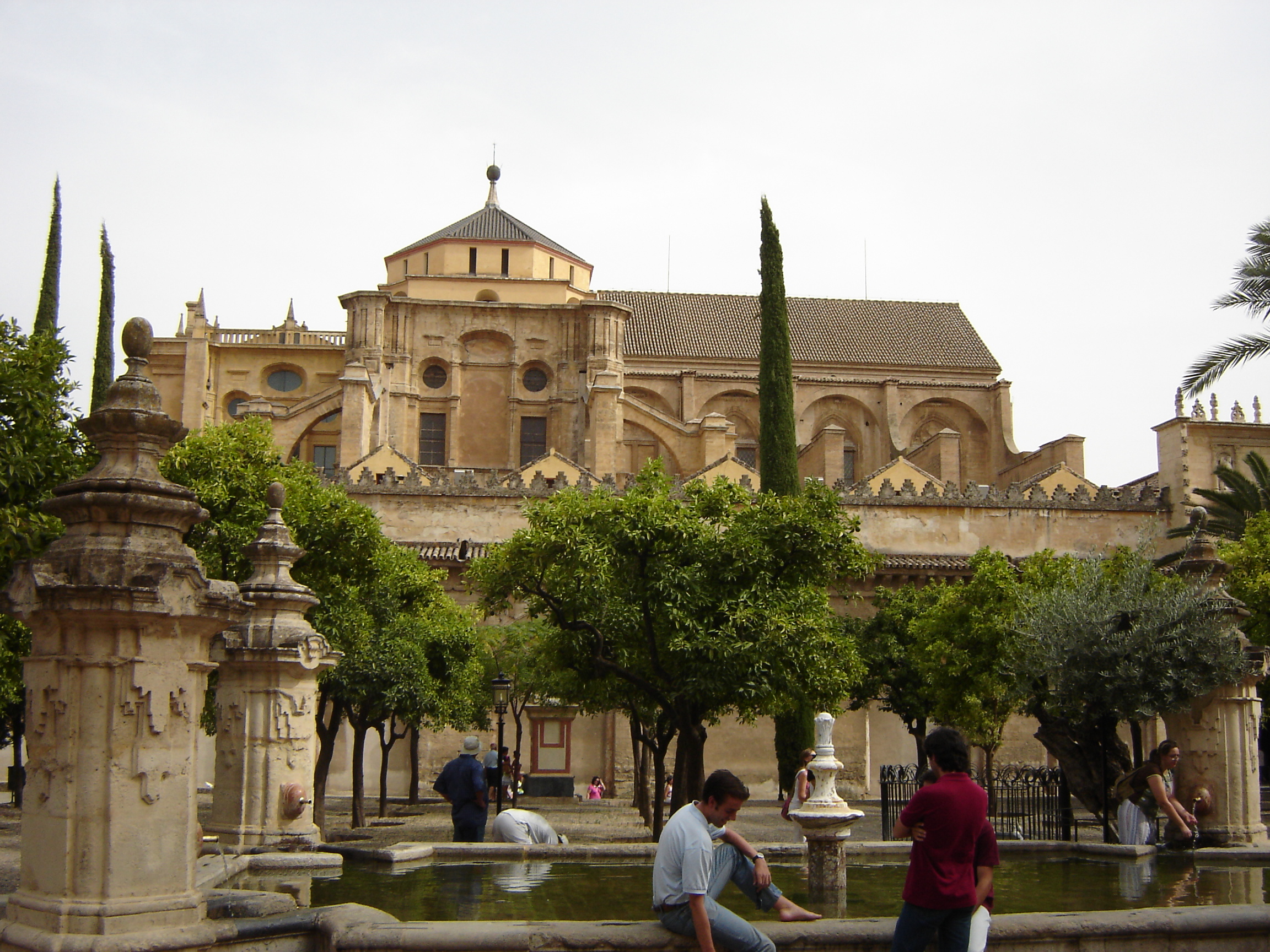 Picture of Patio de los Naranjos of Cordoba (Spain) mezquita's taken by me on august 8th 2005.